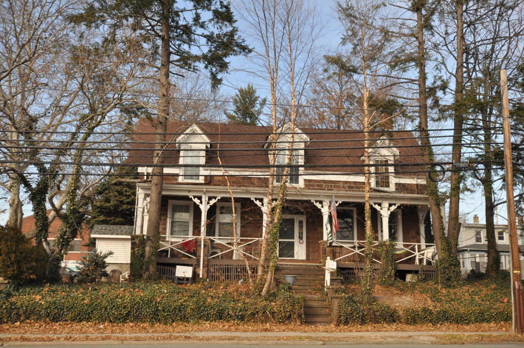 Richard Outwater House, East Rutherford, New Jersey.